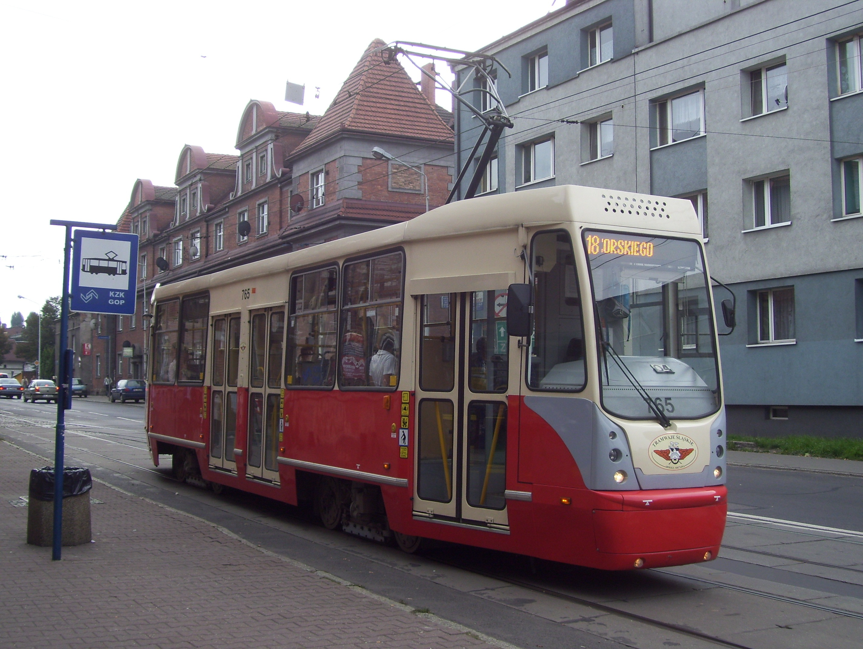 Konstal 105N-2K tram (#765) in Ruda Śląska, Poland. Ślůnski:Štrasbana Konstal 105N2K w Rudzie Ślůnskij